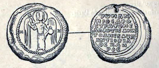 Seal of Romanos Skleros, proedros, stratopedarches of the East and doux of Antioch (late 10th century)